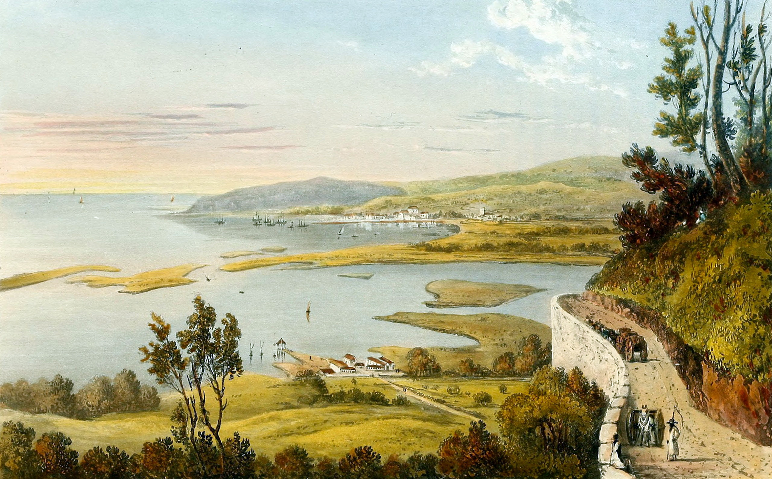 Montego Bay, from Reading Hill.